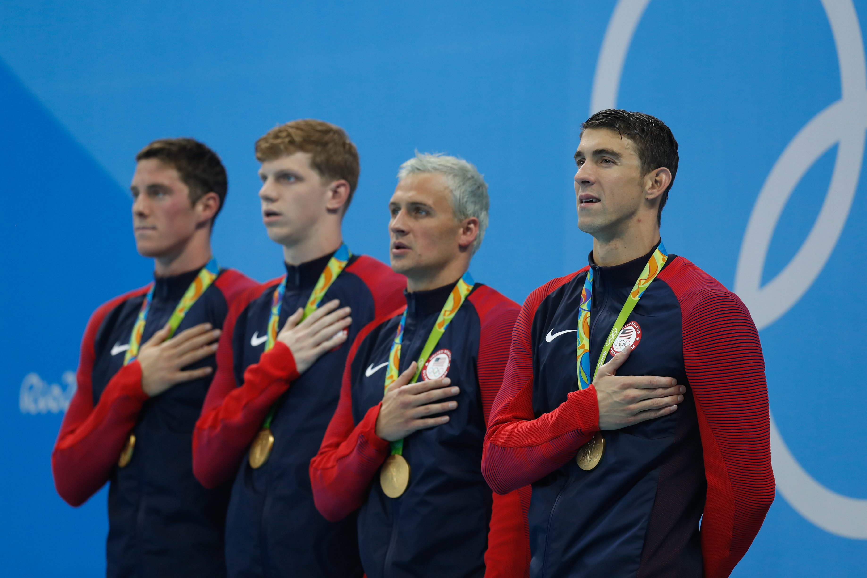 Rio de Janeiro - Equipe norte-americana com Michael Phelps ganha ouro no revezamento 4 por 200m, nos Jogos Rio 2016. (Fernando Frazão/Agência Brasil)